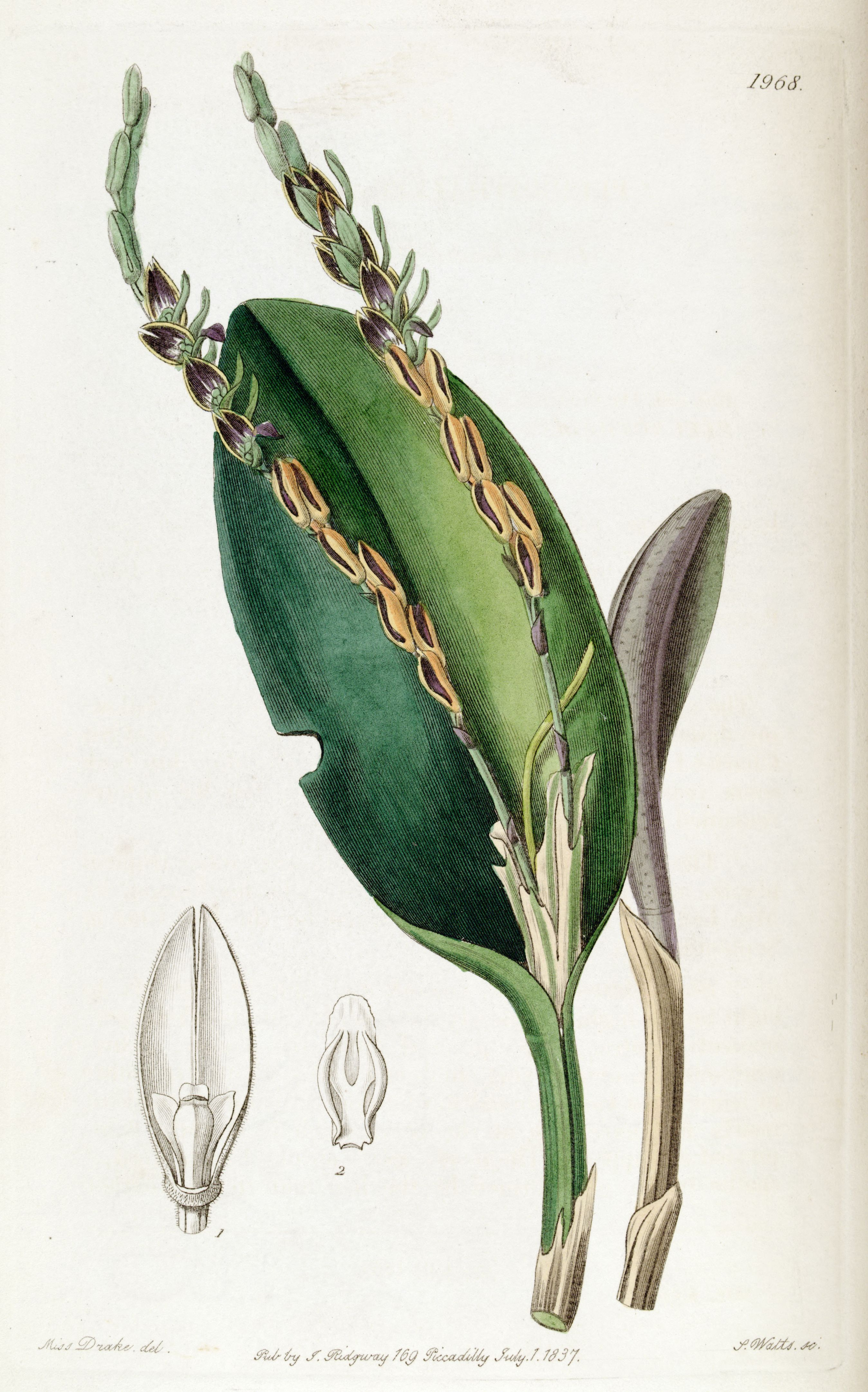 Acianthera saurocephala (as syn. Pleurothallis saurocephala )